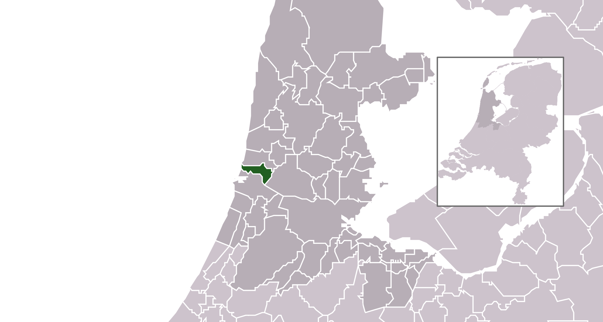 Location maps for the 441 municipalities in the Netherlands. Boundaries 1/1/2009 Automatically generated with script File name contains "Municipality code" (CBS-code) as specified in: [1] Created in svg using coordinate data derived from ESRI data published by Centraal Bureau voor de Statistiek, Voorburg/Heerlen. ([2]) Color coding and original design (slightly adpated by me) by user Mtcv (2006/2007) ([3]) Updated until January 1, 2014 The copyright holder of this file, Centraal Bureau voor de Statistiek, allows anyone to use it for any purpose, provided that the copyright holder is properly attributed. Redistribution, derivative work, commercial use, and all other use is permitted. Attribution: Centraal Bureau voor de Statistiek This work is free and may be used by anyone for any purpose. If you wish to use this content, you do not need to request permission as long as you follow any licensing requirements mentioned on this page.